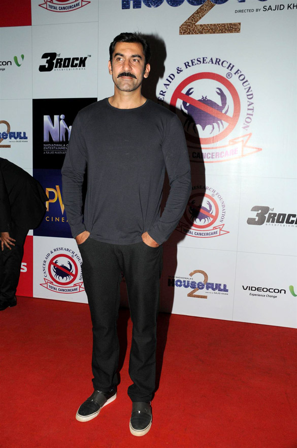 Shah at Housefull 2 screening.